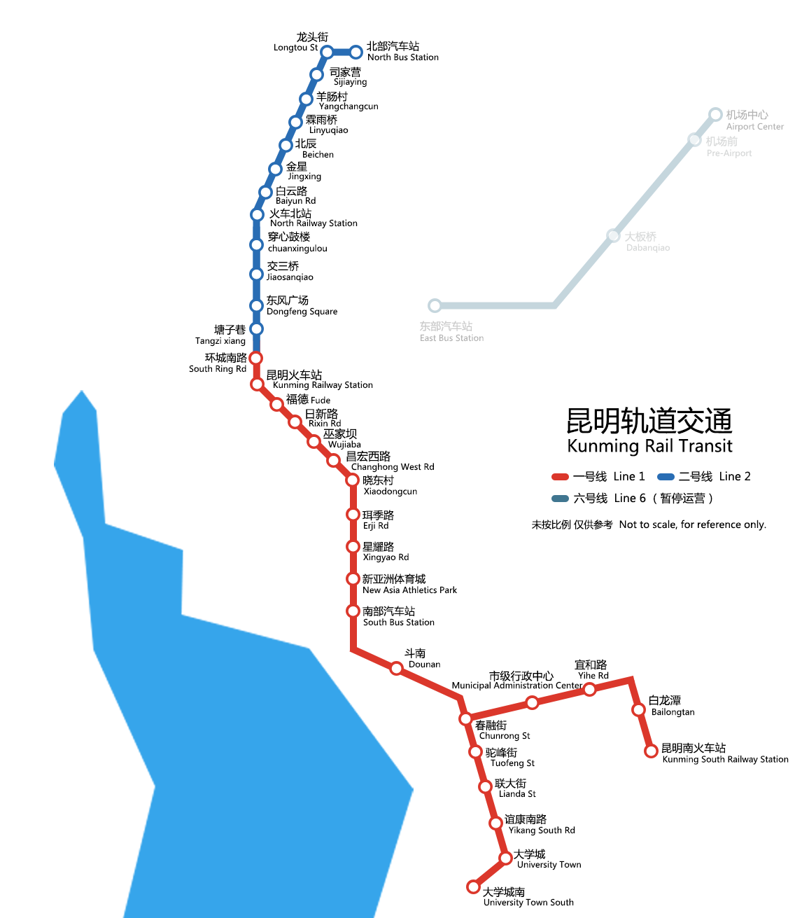 Kunming Metro Map